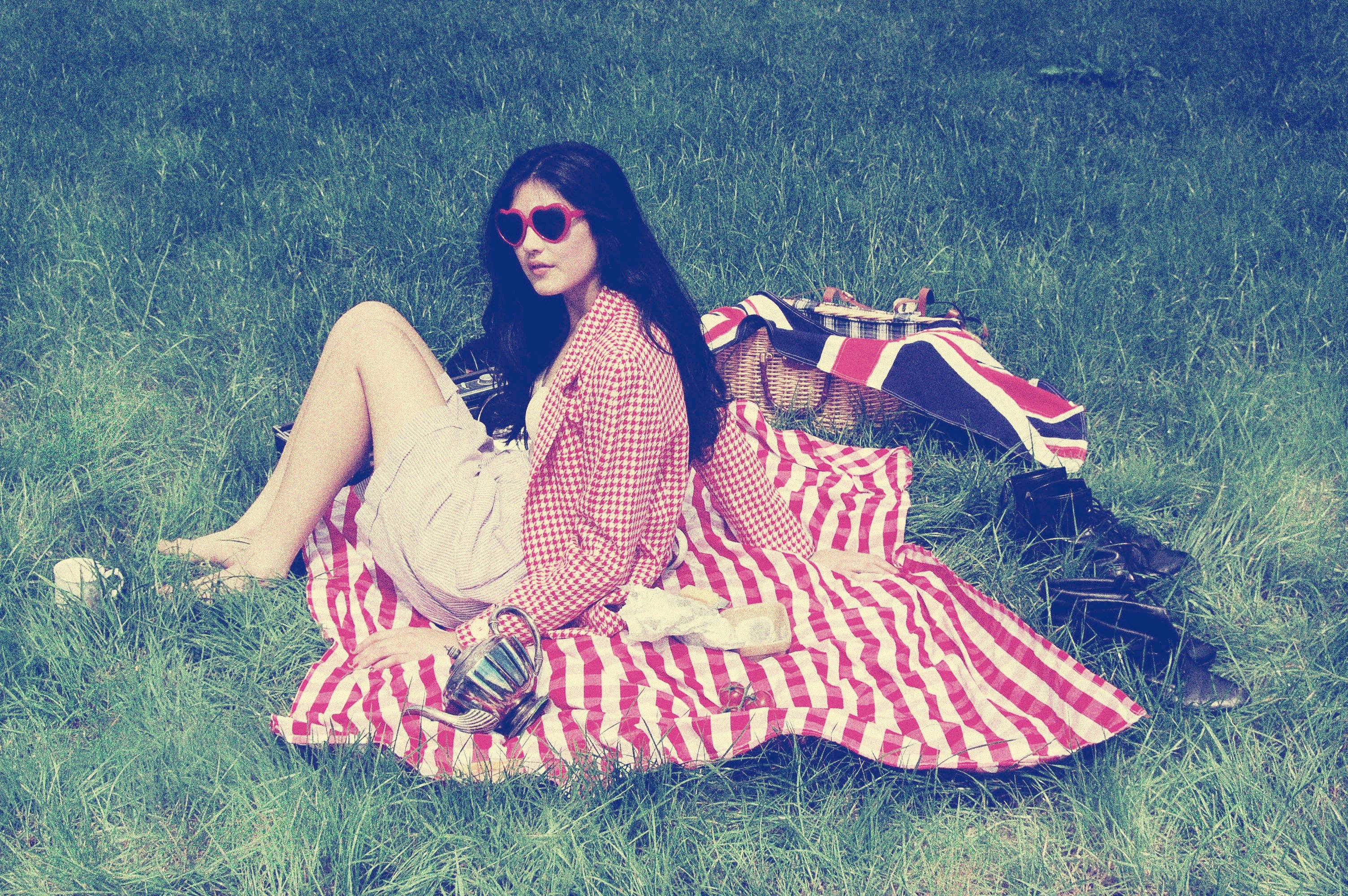 Lolita-look. We can remember, swimming in December